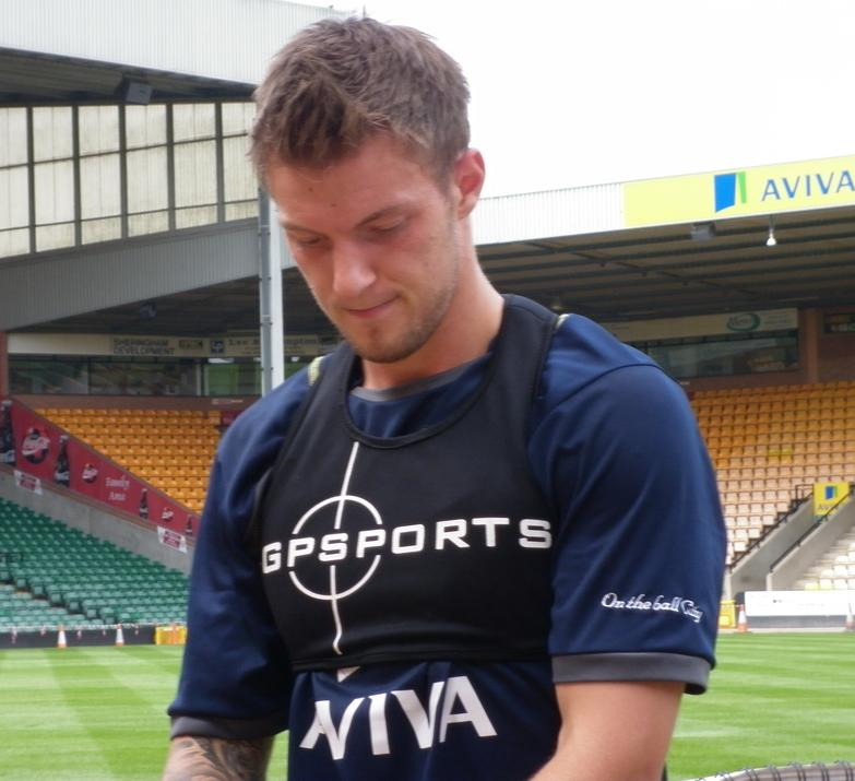 Anthony Pilkington at Norwich City's open training session on 2 August 2011.